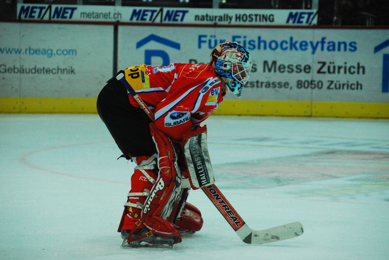 Finnish goalkeeper Ari Sulander.